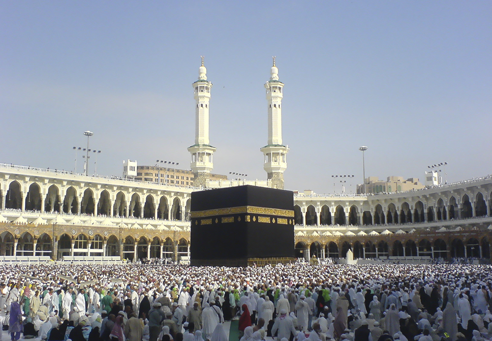 A picture of people performing Tawaf (circumambulating) the Kaaba. This picture taken from the gate of Abdul Aziz seems to divide the Kaaba and the minarets into mirror images of one another.